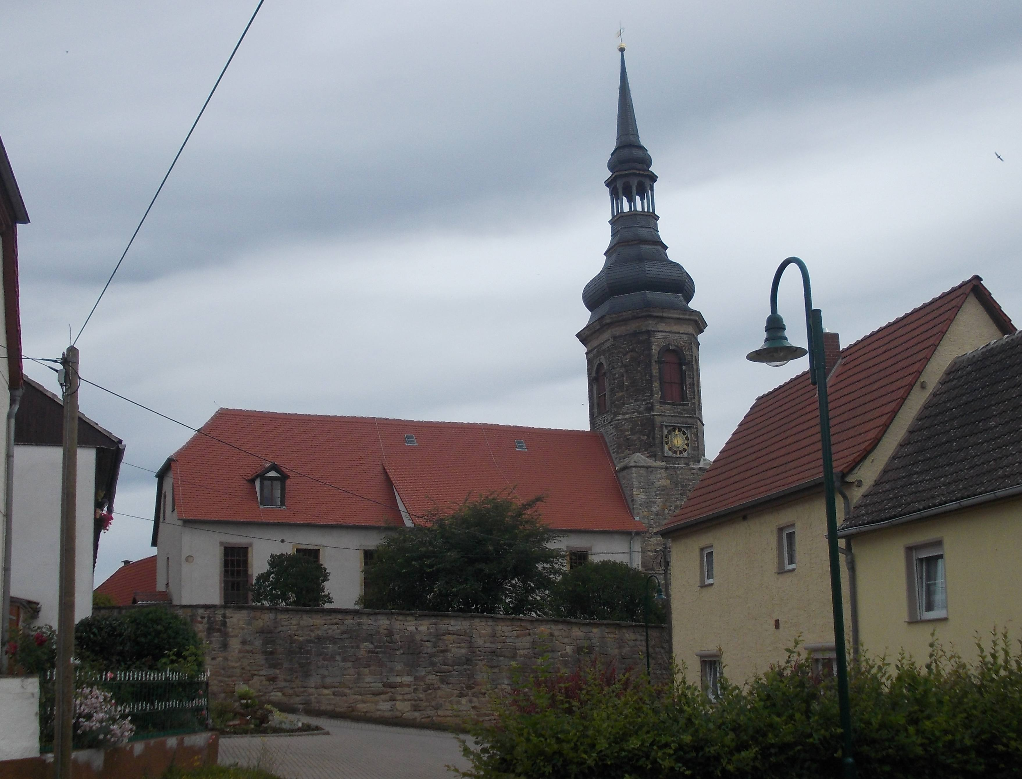 St. Cecilia's Church in Bucha (Kaiserpfalz, district: Burgenlandkreis, Saxony-Anhalt)